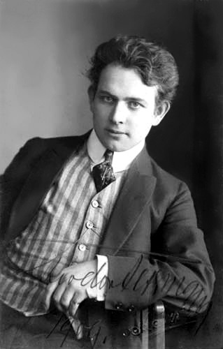 1909 portrait of Estonian actor, theatre director and producer Theodor Altermann (1885-1915).